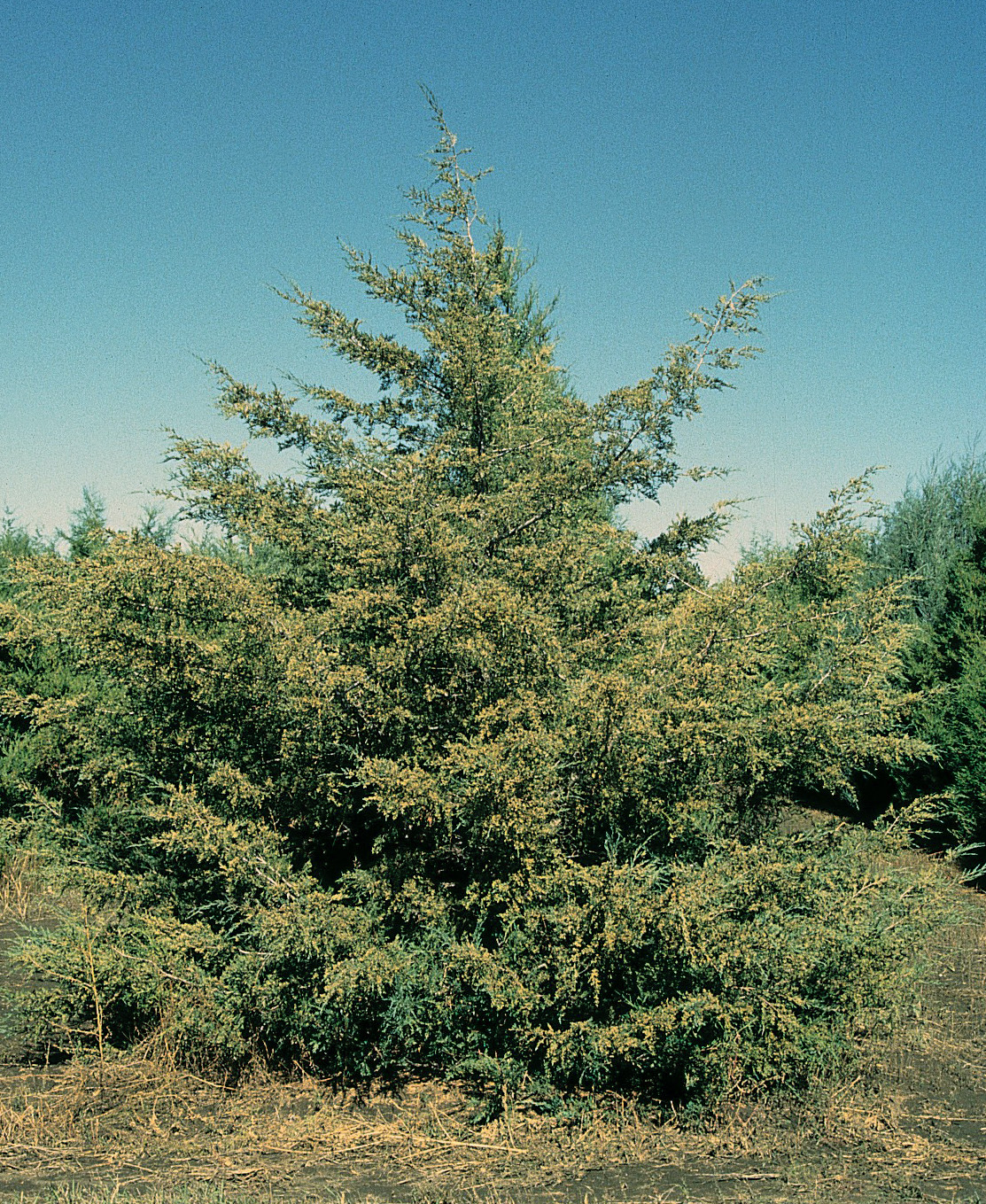 Eastern Redcedar. Whole tree.